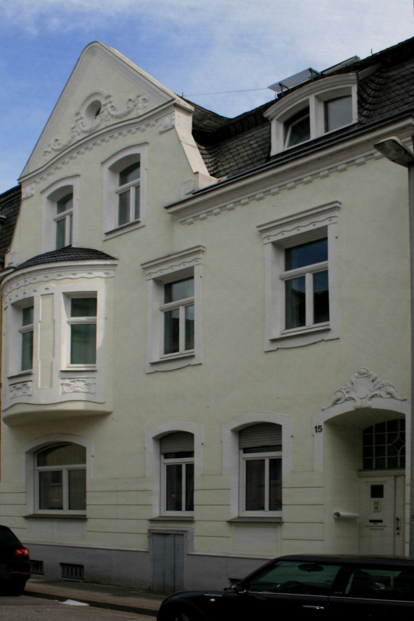 Cultural heritage monument No. B 156 in Mönchengladbach